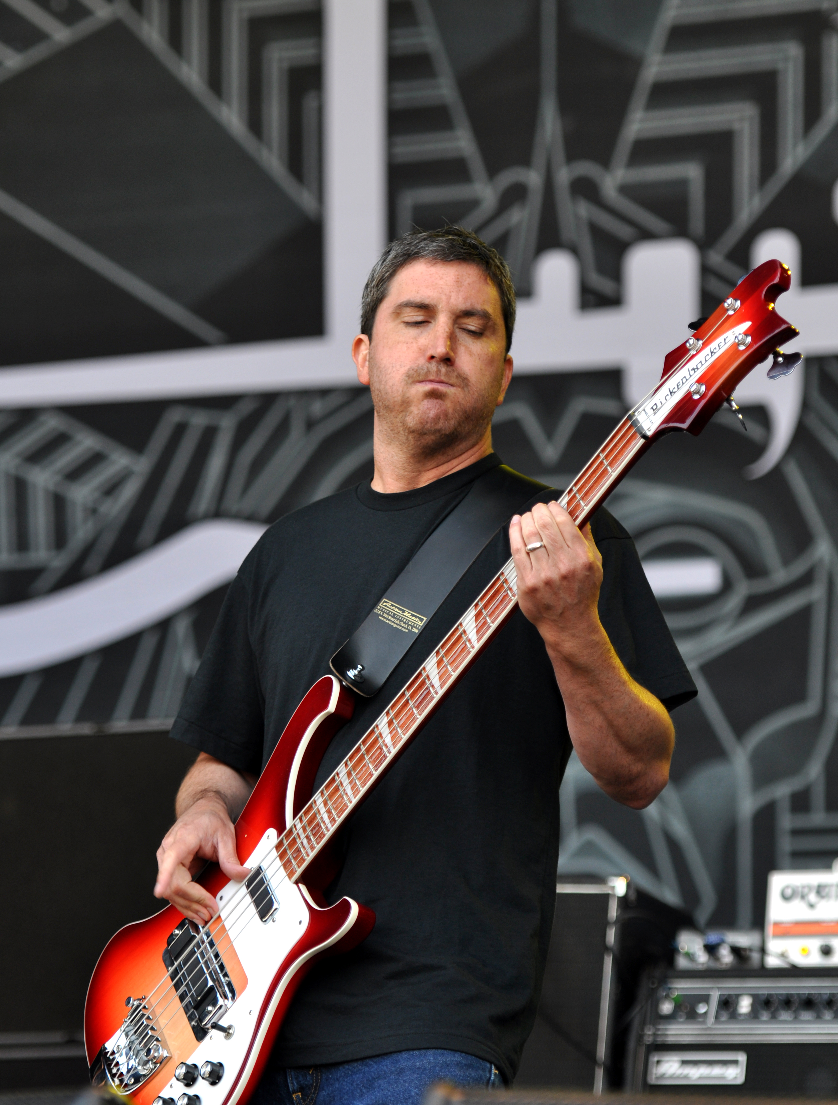 US stoner rock band Clutch at Rock am Ring 2013